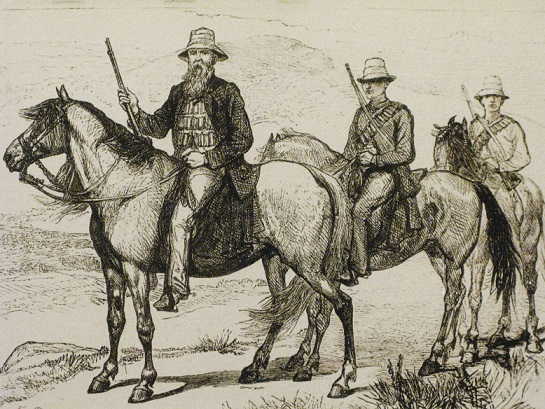 Commandant Petrus Lafras Uys (1827-1879) and two of his sons as pictured by the London Illustrated News shortly before his death in the Anglo-Zulu War.